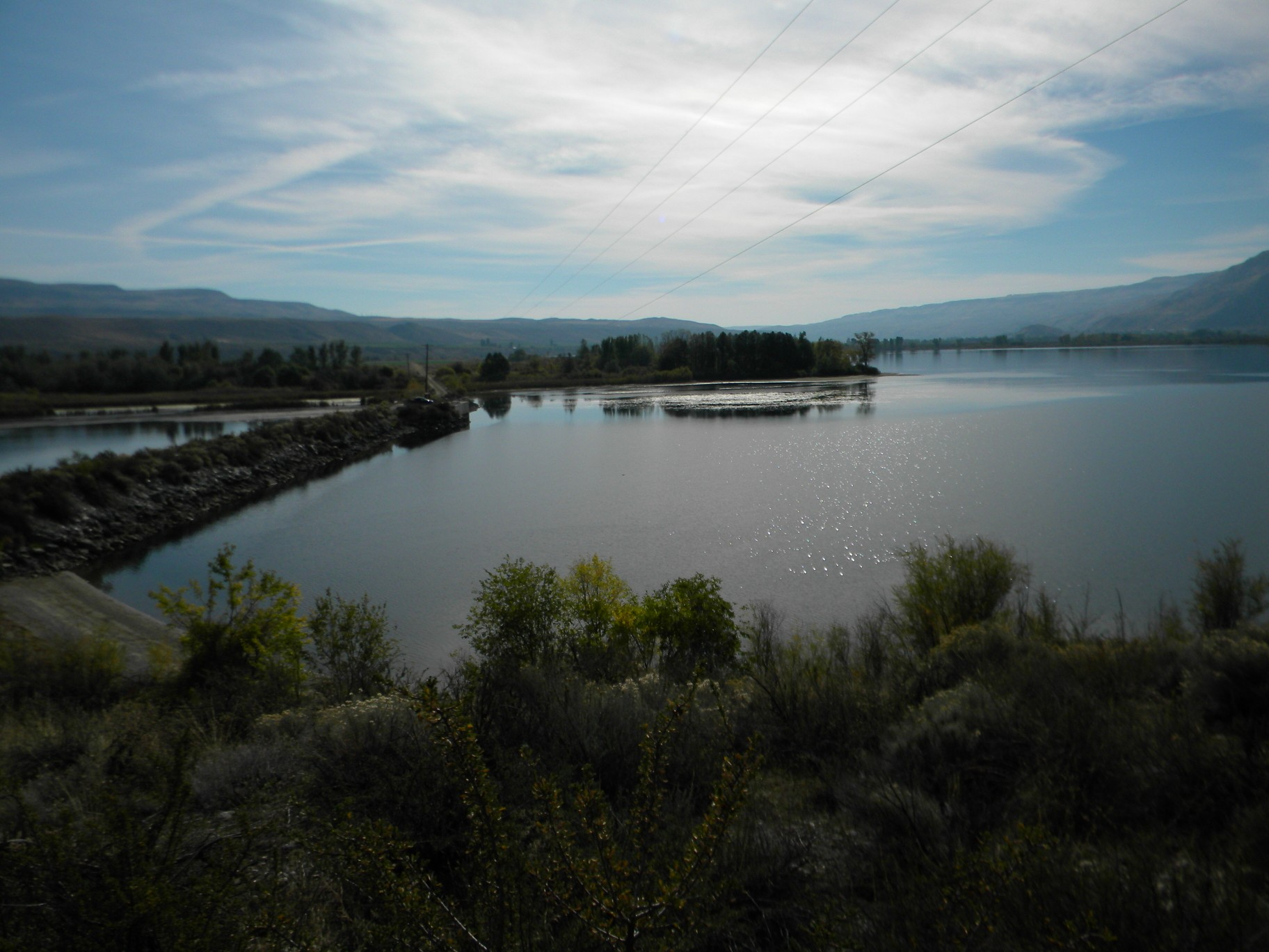 Fort Okanogan, Sites of